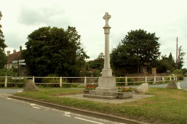 The War Memorial at Bredgar